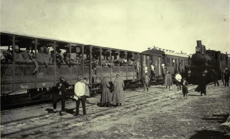 “Troops trains: one filled with Georgians, the other with Russians, on the railway to Telav, 35 miles from Tiflis.” Photography by Maynard Owen Williams